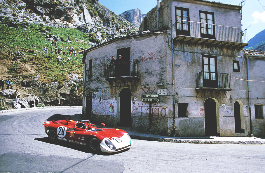 Piers Courage (GB) and Andrea de Adamich (I) in the Alfa Romeo T33/3 entered by Autodelta SpA at Targa Florio on 3 May 1970. They ended in 41st place.[1]